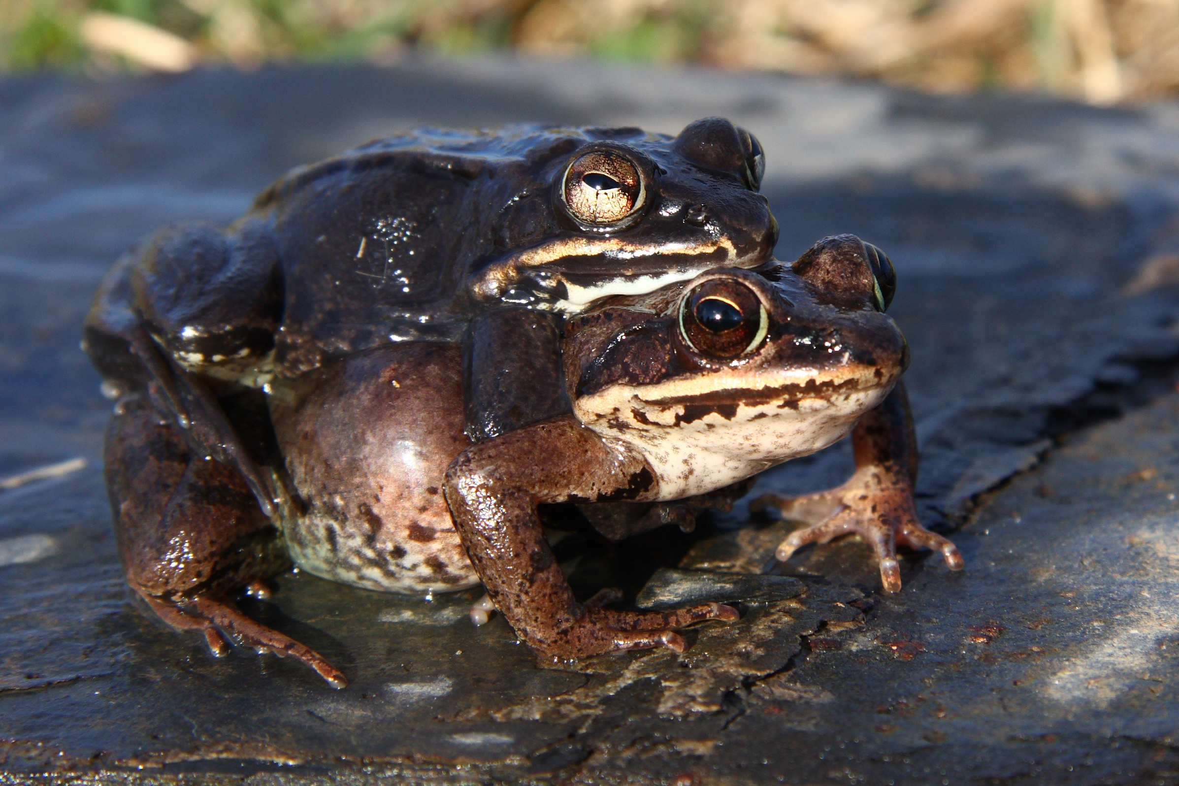 Pair of Wood Frogs mating (animals have been pulled out ou water). Saint-Camille, Quebec, Canada